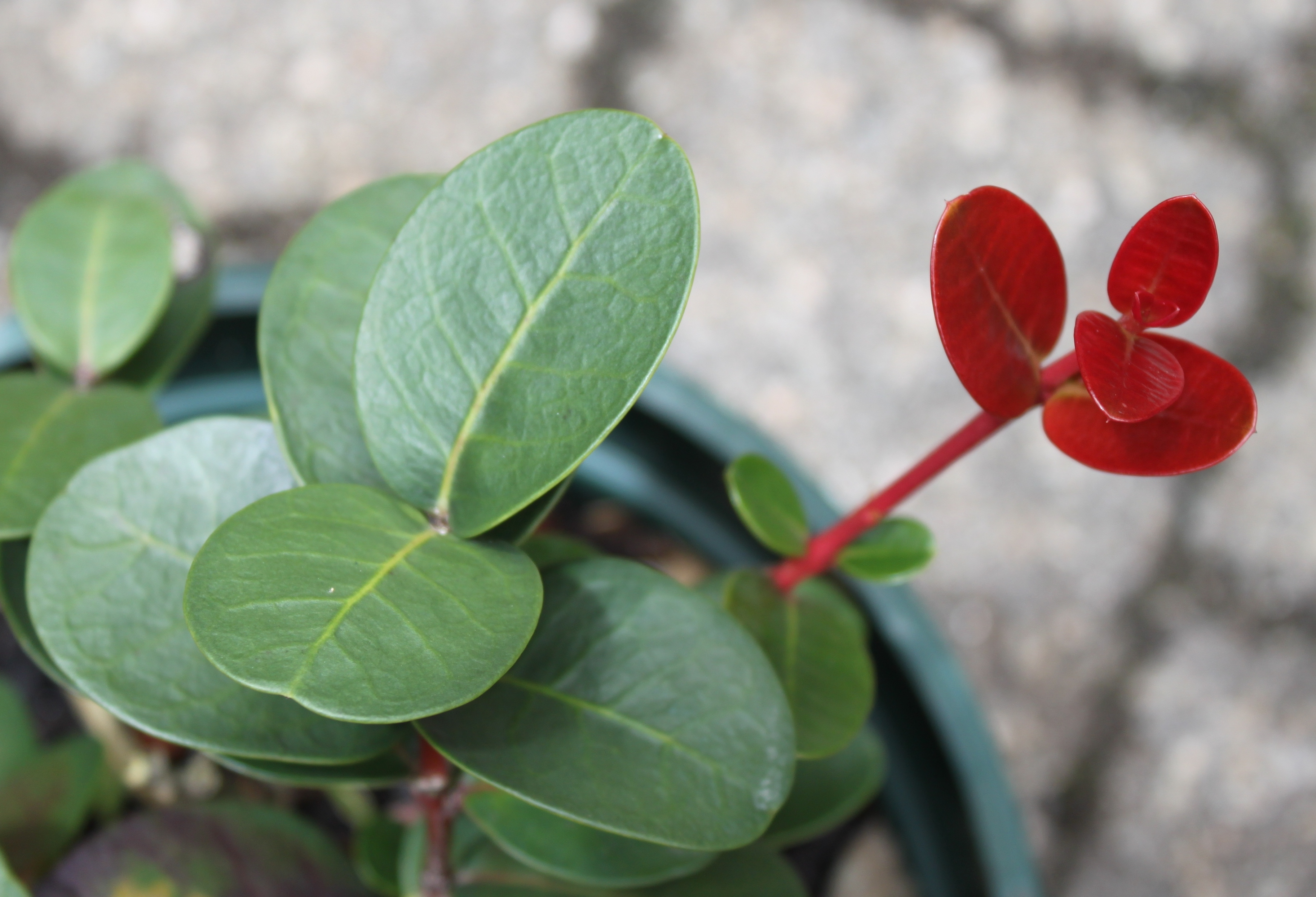 Maurocenia frangularia tree. Juvenile in South African nursery.